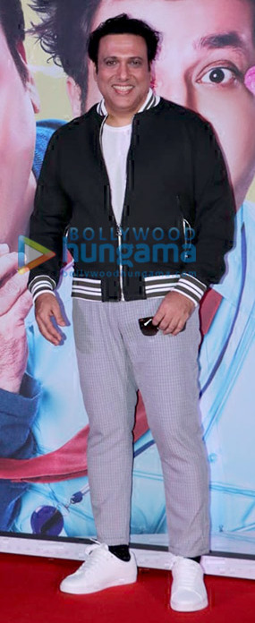 Govinda snapped at trailer launch of the film Fry Day.